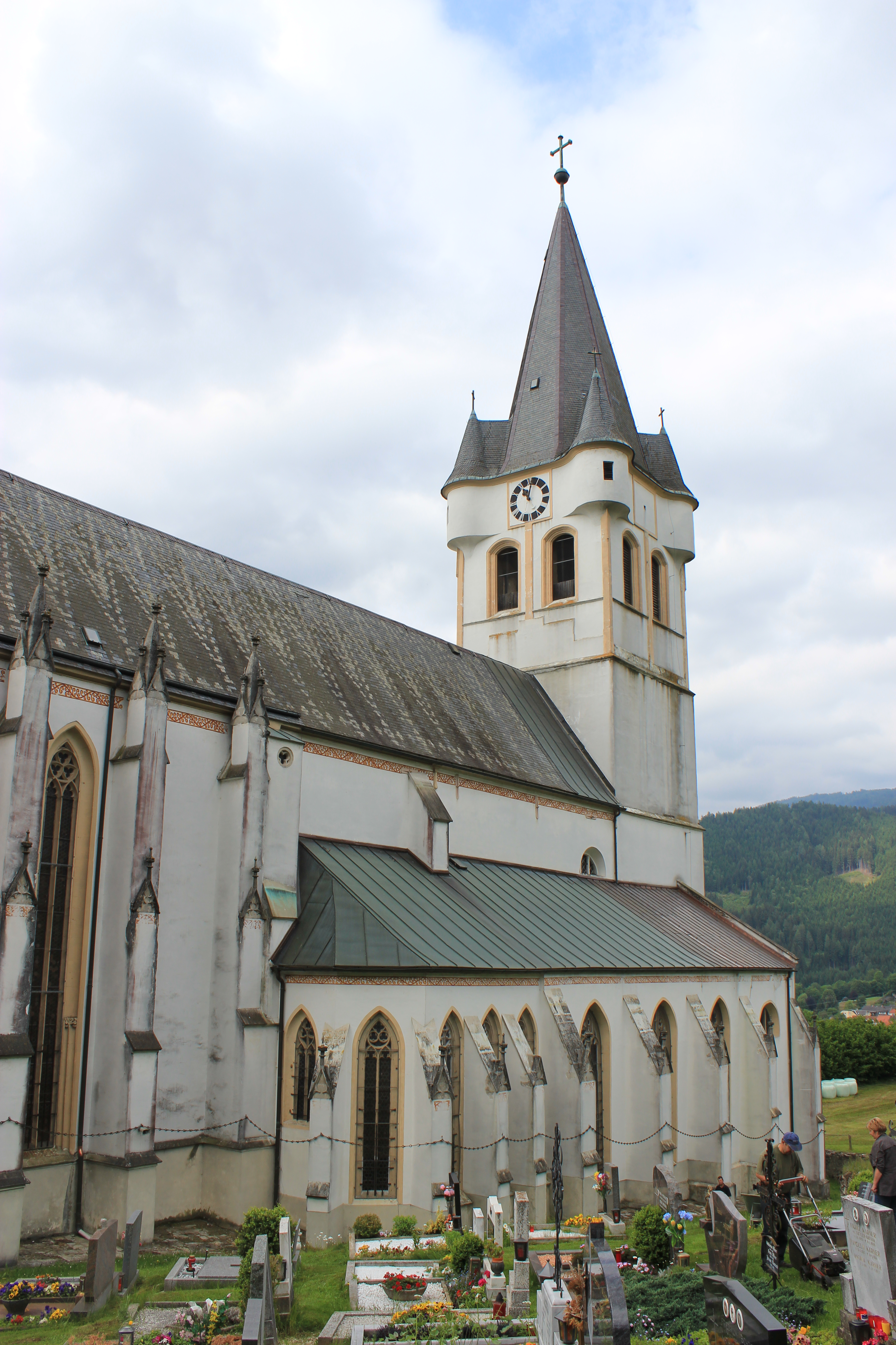 Parish church in Bad Sankt Leonhard - detail